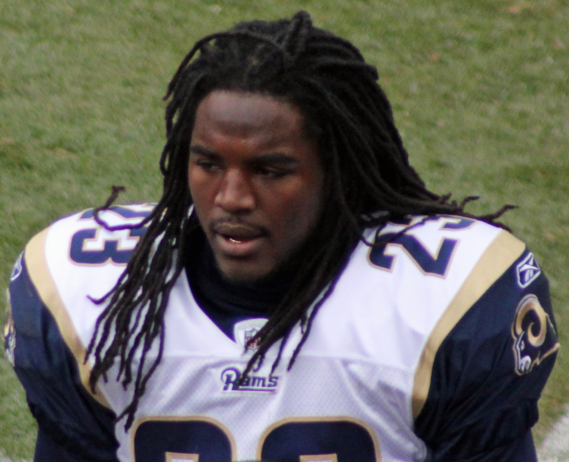 Jerome Murphy, a player on the Saint Louis Rams American football team.